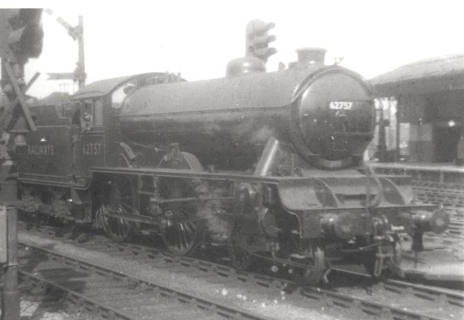 LNER D49 Class 4-4-0 Hunt loco 62757 The Burton in 1048 Note the use of Lentz rotary-cam poppet valves on the D49/2 'Hunt' class